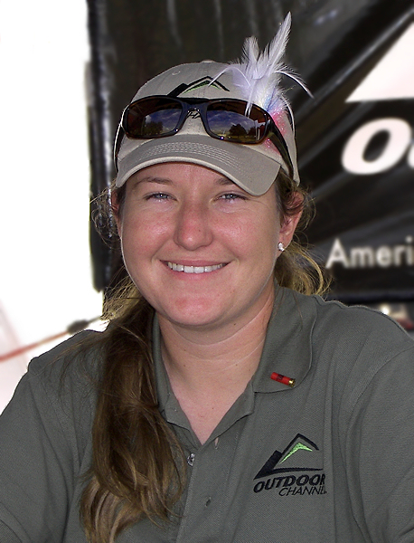 Kim Rhode, Olympic Gold Medal shooter and co-host of the Outdoor Channel's TV program Step Outside at the Texas Parks and Wildlife Expo 2007 in Austin, Texas, United States.